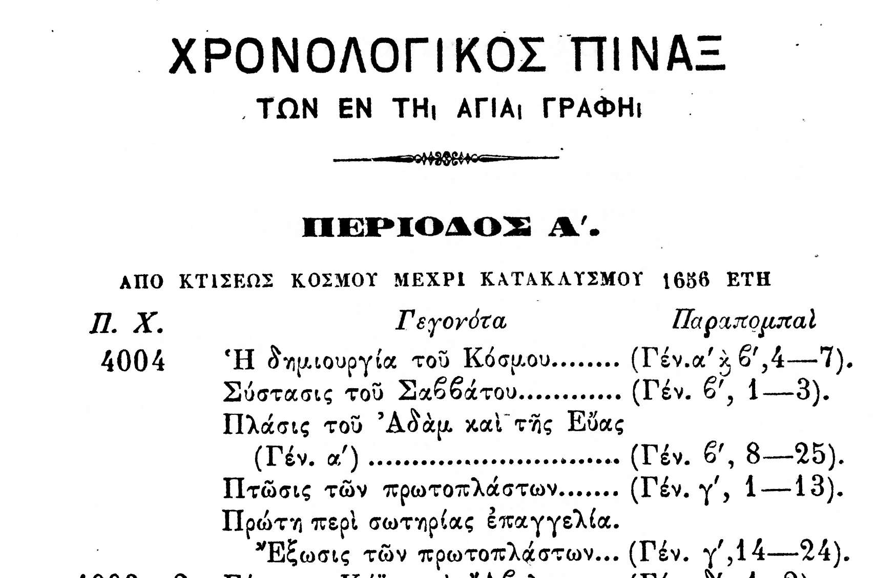 Bible dictionary chronological table